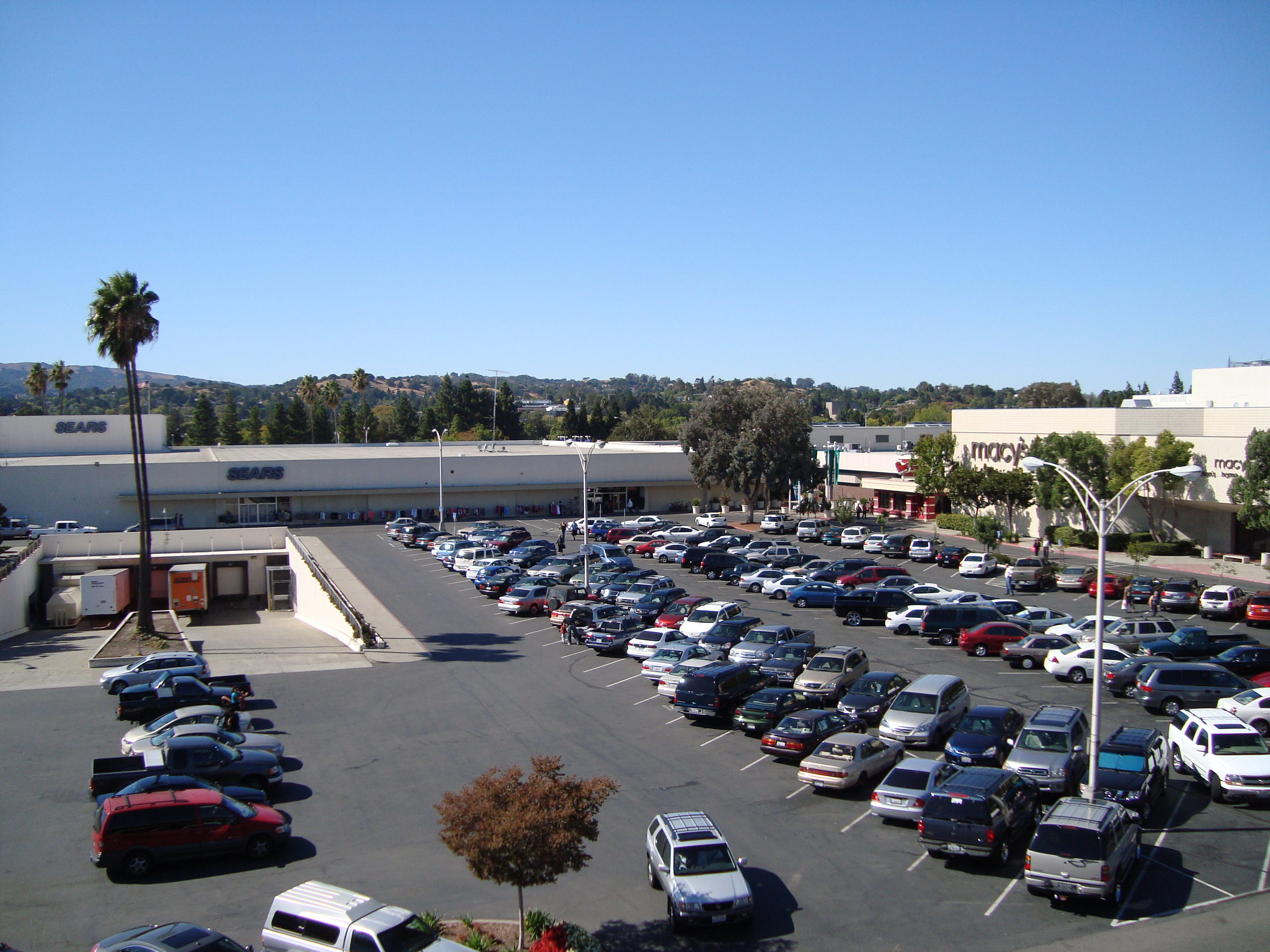 Sunvally Mall, Concord, California